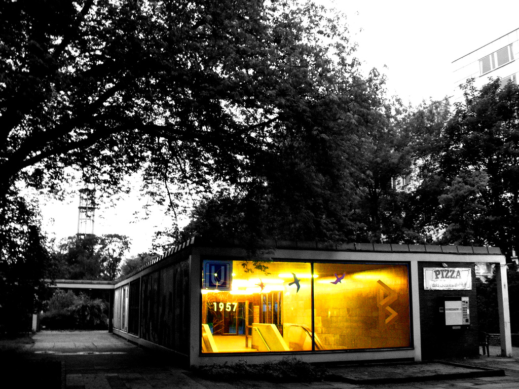 Entrance building of the Berlin U-Bahn station Hansaplatz